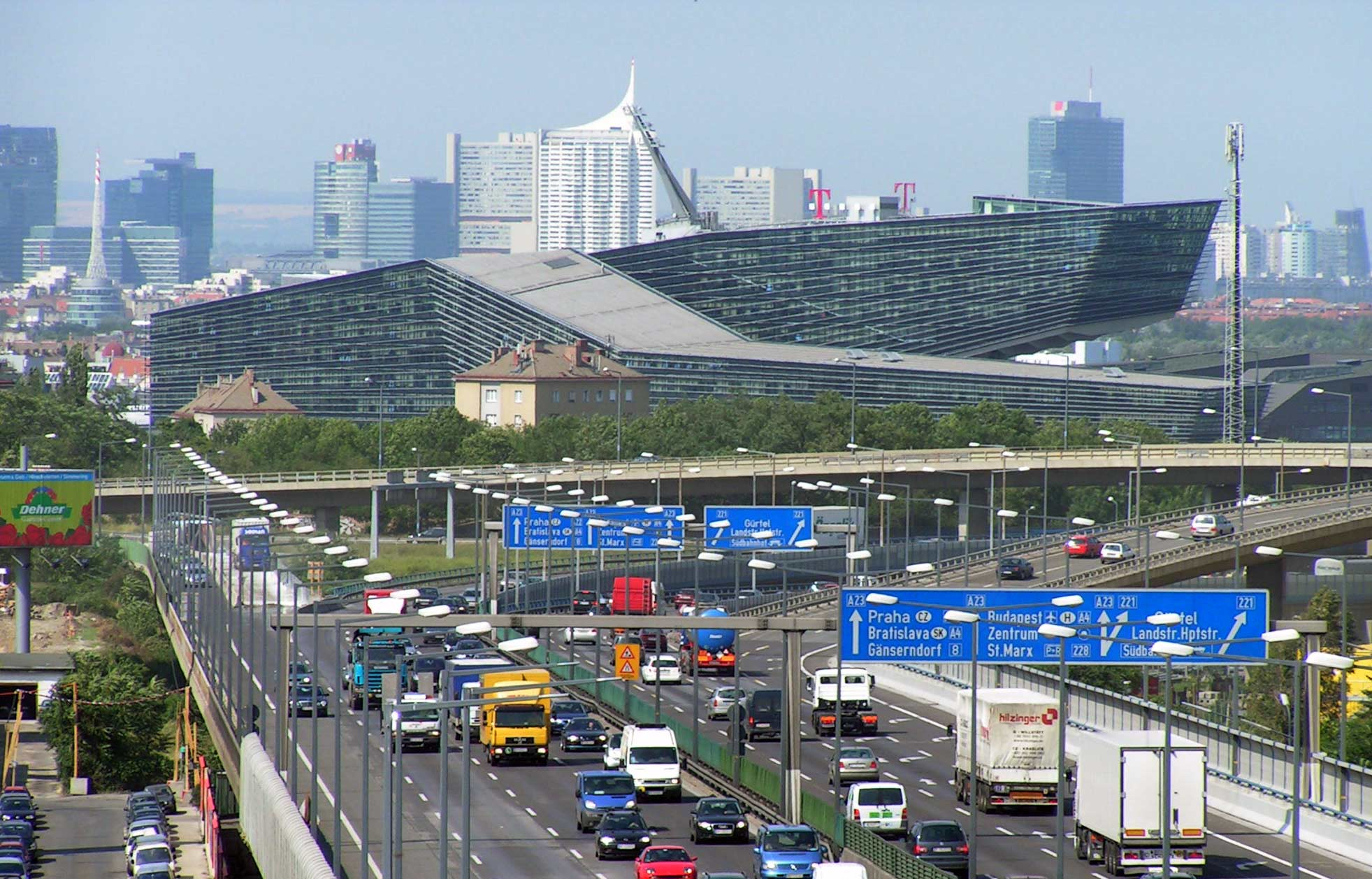 The headquarter of the cellphone-company T-Mobile Austria in Vienna (District Landstraße). In front the Südosttangente motorway.